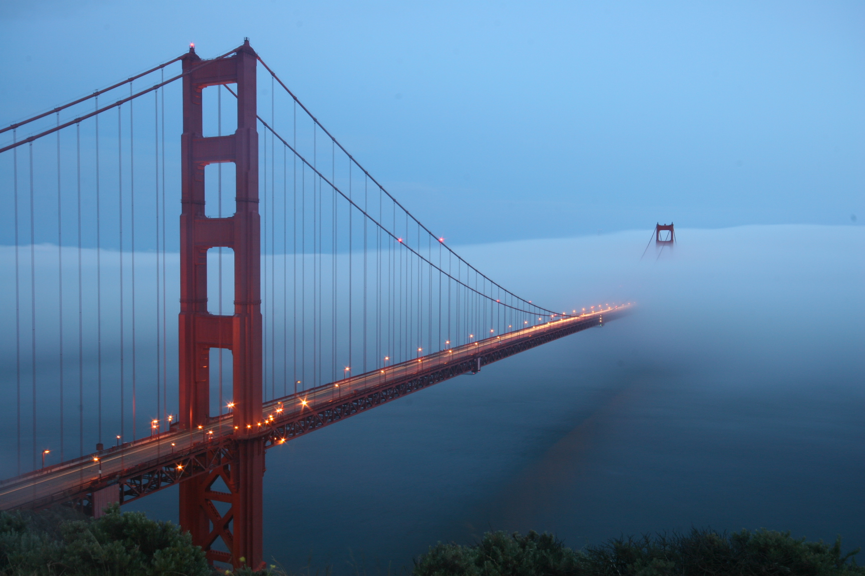 Golden Gate Bridge, San Francisco. Was hoping to get both towers enveloped in fog, but even just one is a mystical and magical sight.